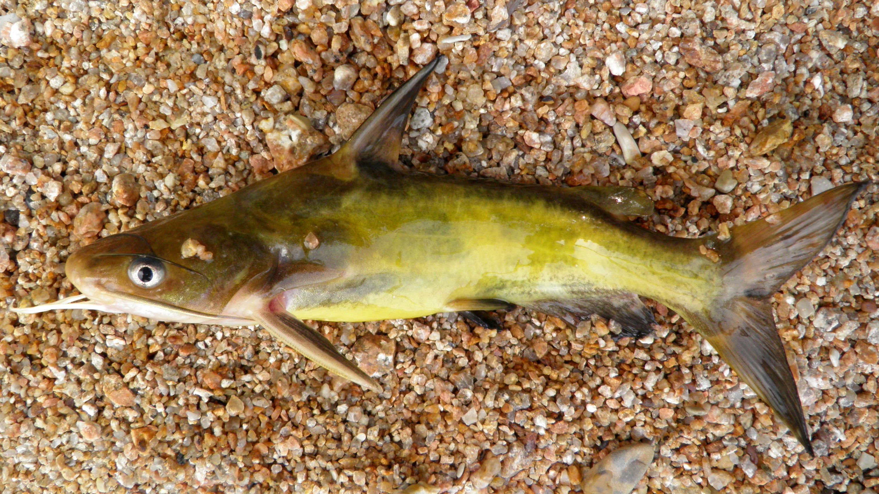 Tachysurus fulvidraco from the Lake Khanka